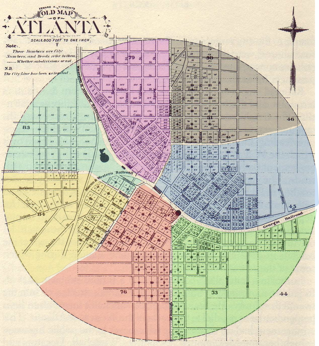 Created with Inkscape on top of Public Domain 1851 Atlanta map